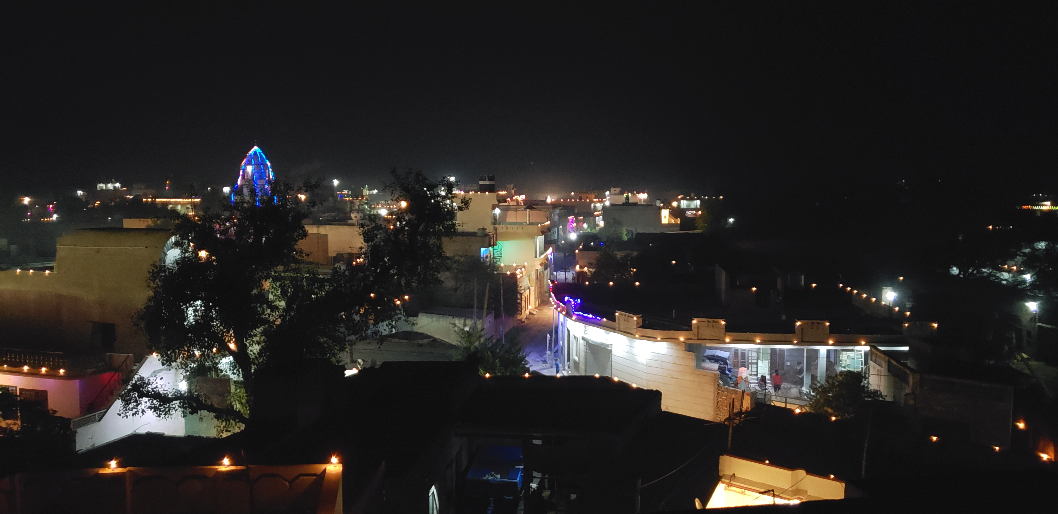 The Beautiful view of Diwali Night Can be seen in the Photo of Village Punian which is taken in Nov 2018.